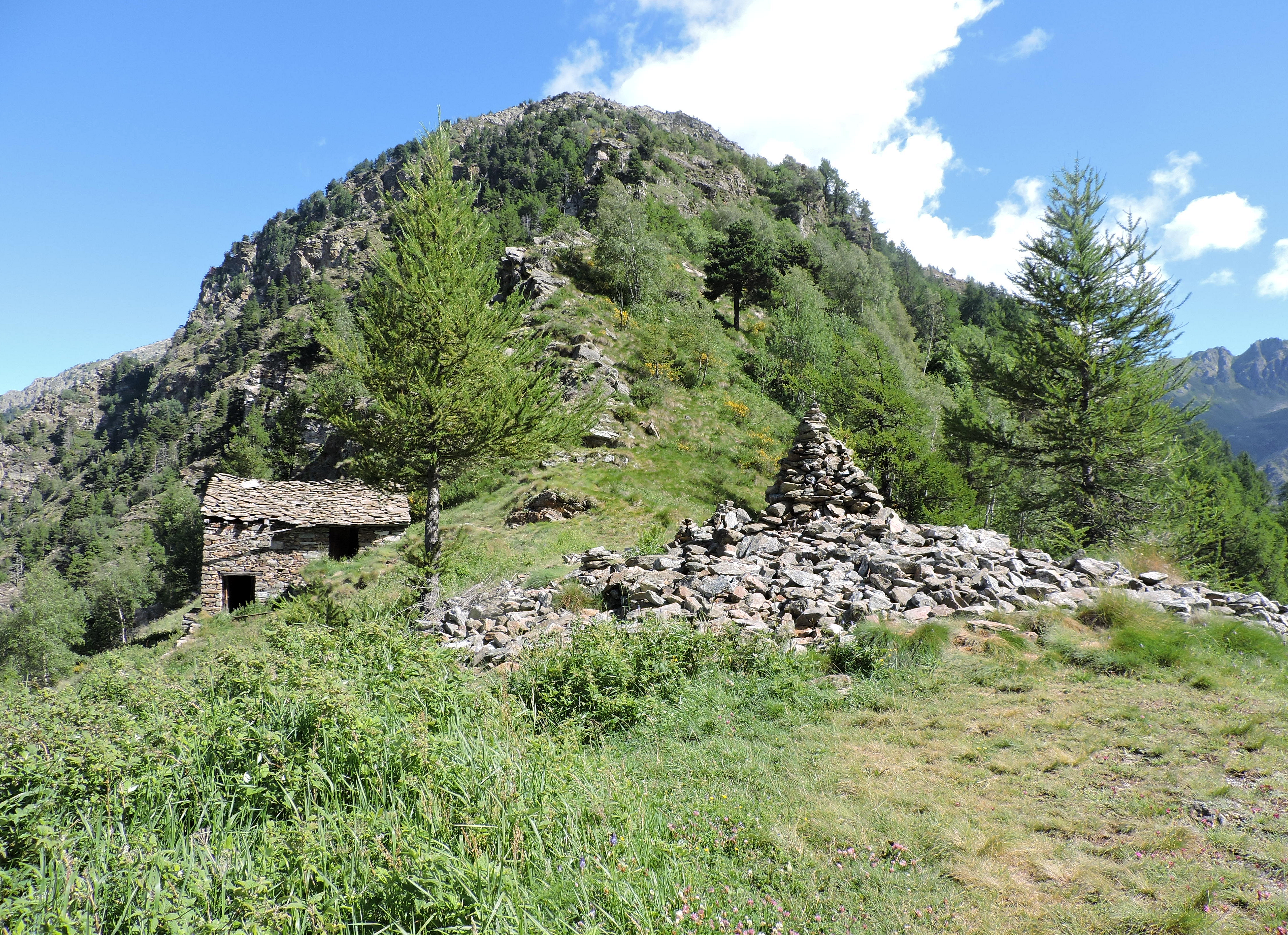 Col de Fenêtre from South (AO, Italy)